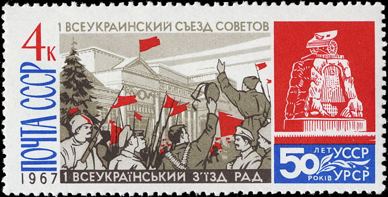 The stamp of the USSR devoted to the 50 anniversary of the first Allukrainian congress of Soviets, 1967